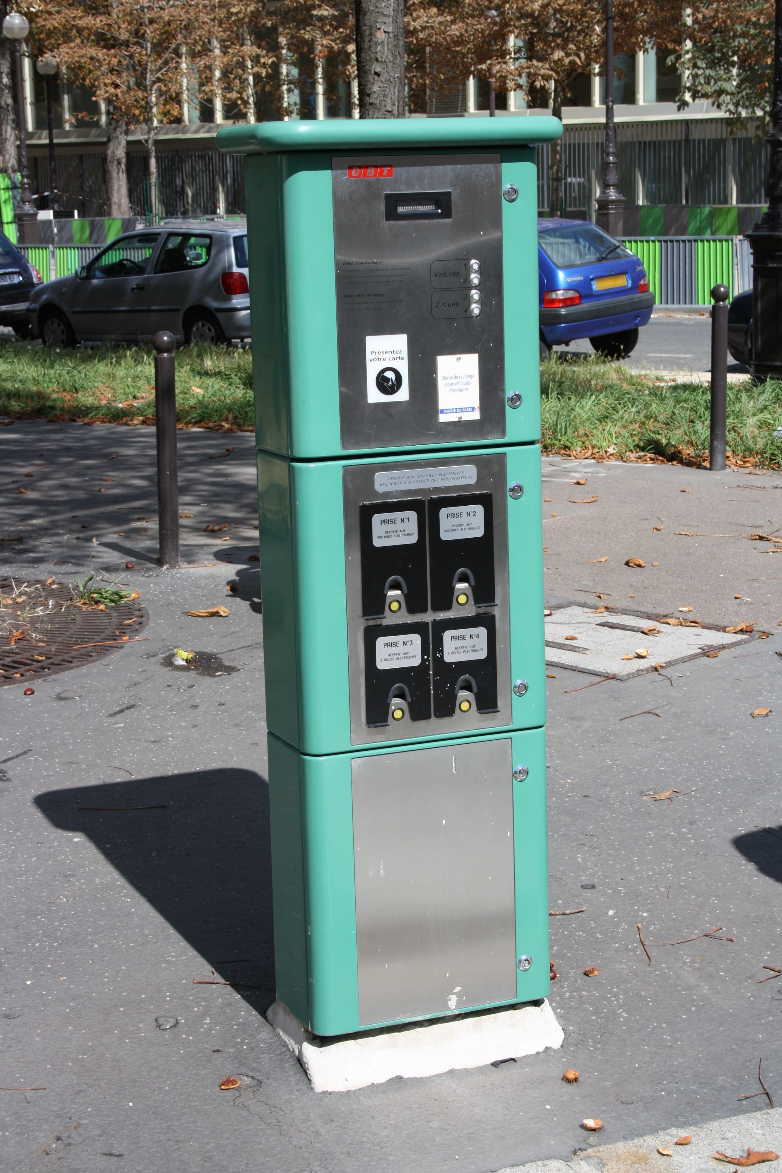 Electric vehicle charging station Paris, France